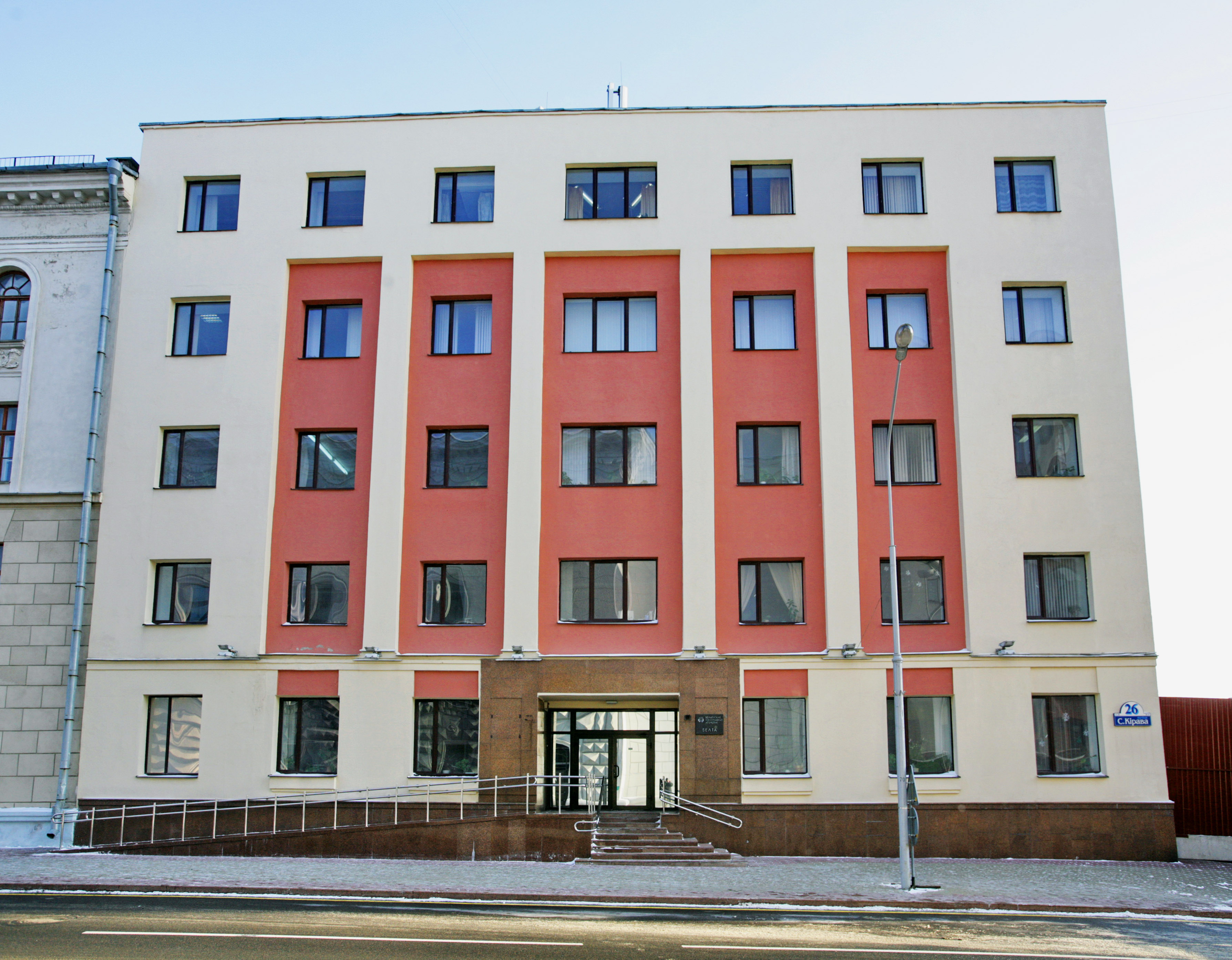 Office on Kirov street